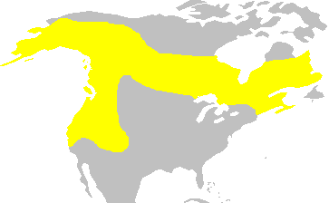 Approximate distribution map of the Wilson's Warbler (Wilsonia pusilla). Yellow indicates the summer-only range, blue indicates the winter-only range, and green indicates the year-round range of the species.